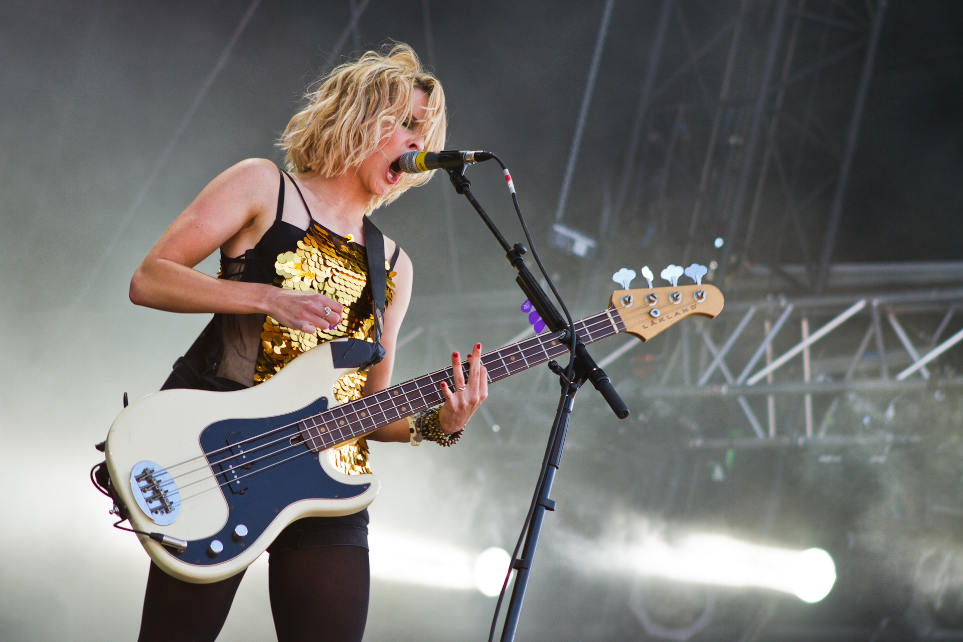 Charlotte Cooper of The Subways at Southside Festival 2014 in Neuhausen ob Eck